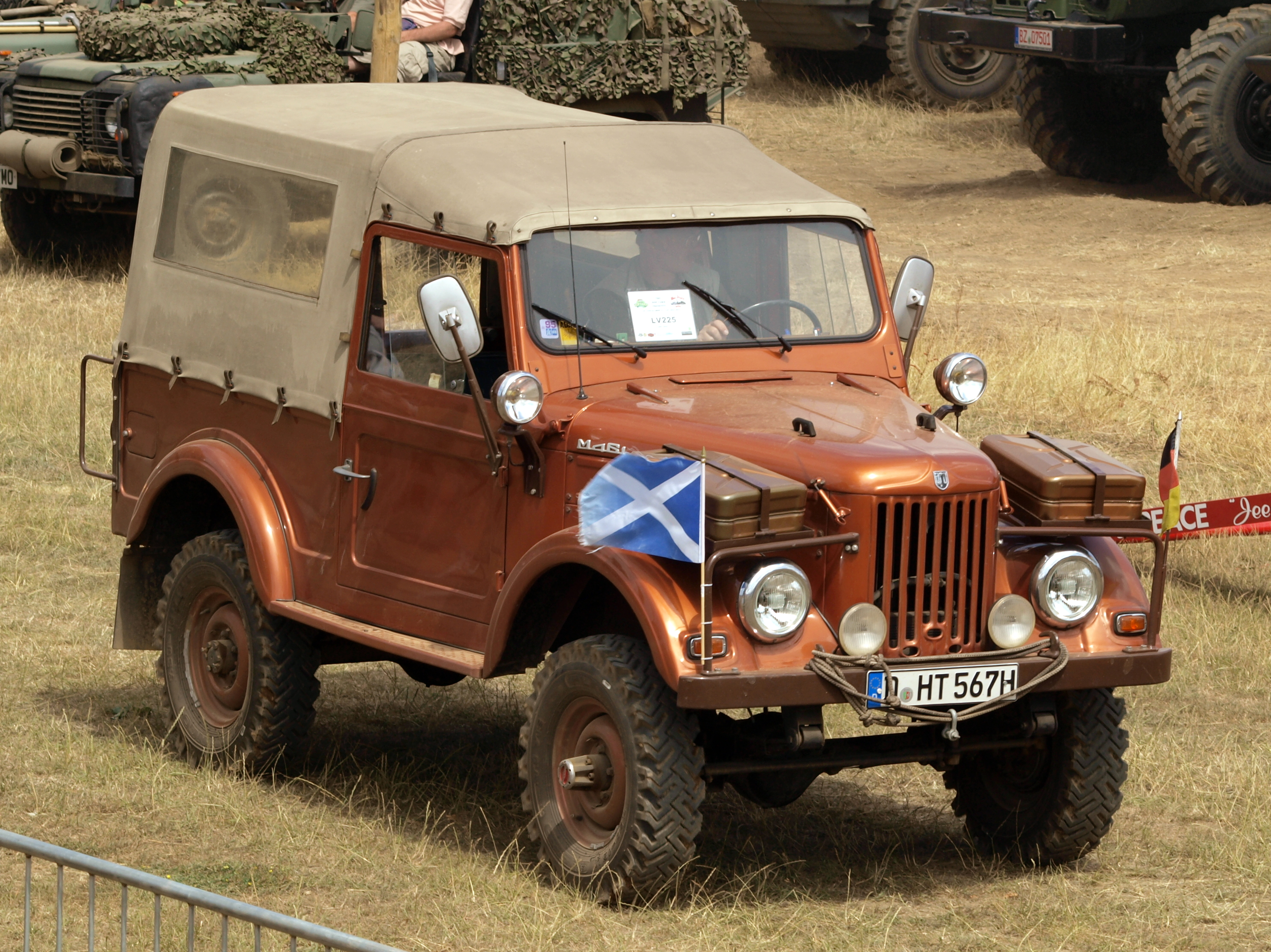 ARO M461C Romania (owner Dirk baumbach) Note: wheels, canvas top and front differential seem not original.